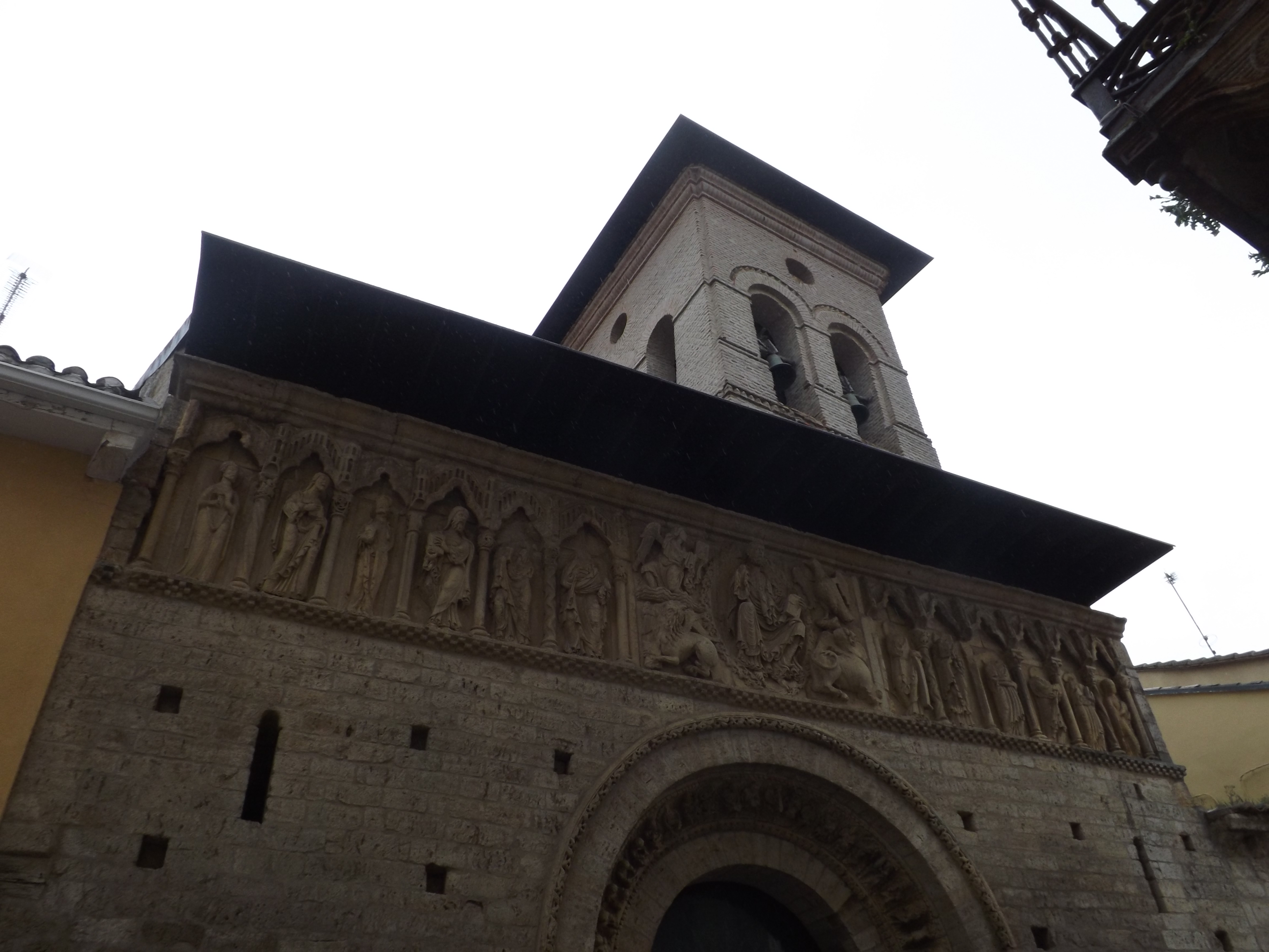 Église et musée de Santiago de Carrion de los condes.